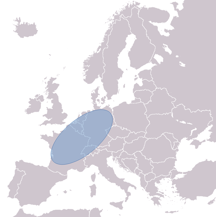 Map of European Tornado Alley